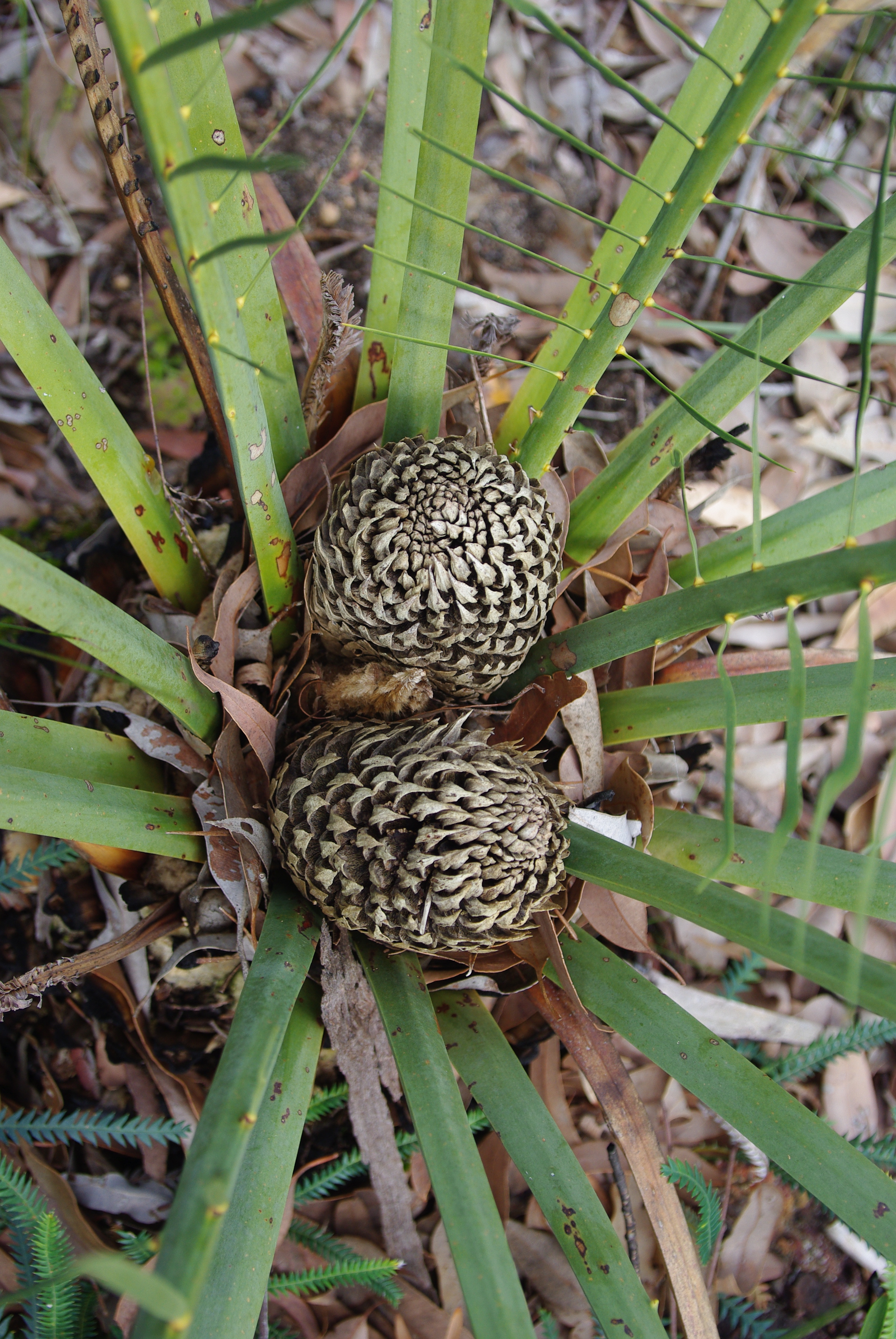 Macrozamia riedlei plant in Strettle Road Reserve Glen Forrest Western Australia